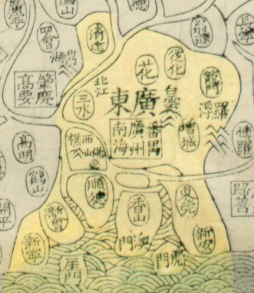 Highlight of 廣州府, area cover the proximity of the city of Canton in South China. Based on Ch'ing Map 京版天文全圖 (1790 by 馬俊良).